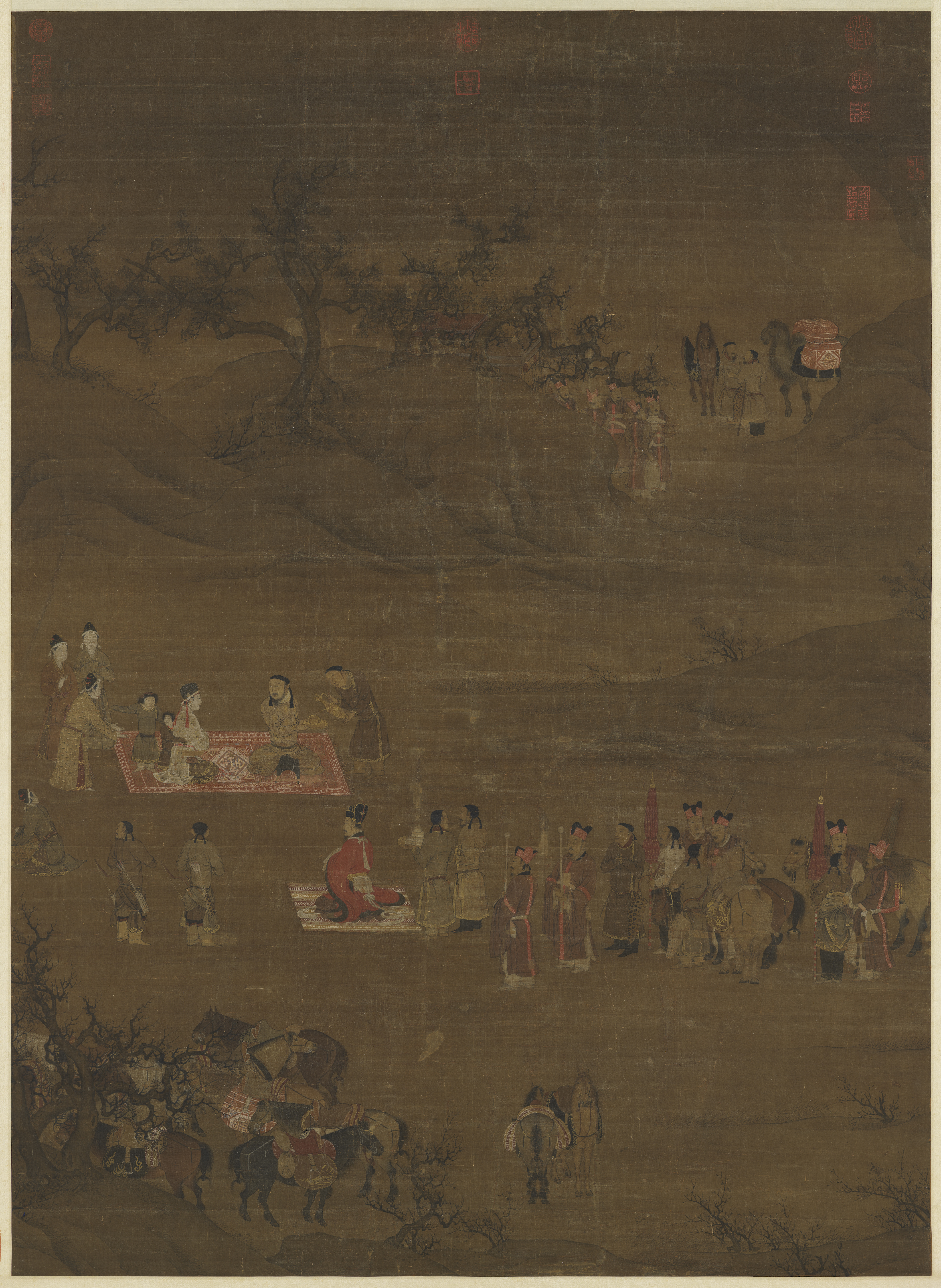 Cai Wenji (蔡文姬; 162-229), daughter of Cai Yong (蔡邕) from the Eastern Han period, was abducted by northern tribesmen on horseback during the chaos of the Xingping era, married to King Zuoxian (左賢王) of the Southern Xiongnu, and later rescued by Cao Cao (曹操) after payment of a large ransom. The theme of "Lady Wenji's Return to China" (文姬歸漢) was often evoked as a subject in paintings. This scene depicts "Bidding Farewell" (辭別) of the "Eighteen Songs of a Nomad Flute" (胡笳十八拍). It shows King Zuoxian and Cai Wenji having wine and conversing before her departure. Even though the events took place during the later stages of the Han dynasty, the clothing of the figures was done with features that fits well with the Song and Jin dynasties. This painting bears no seal or signature of the artist, but it had been attributed at some point to Chen Juzhong (陳居中), who was a painter-in-attendance at the Painting Academy during the Jiatai reign (1201-1204) of Emperor Ningzong (寧宗) of the Song dynasty.